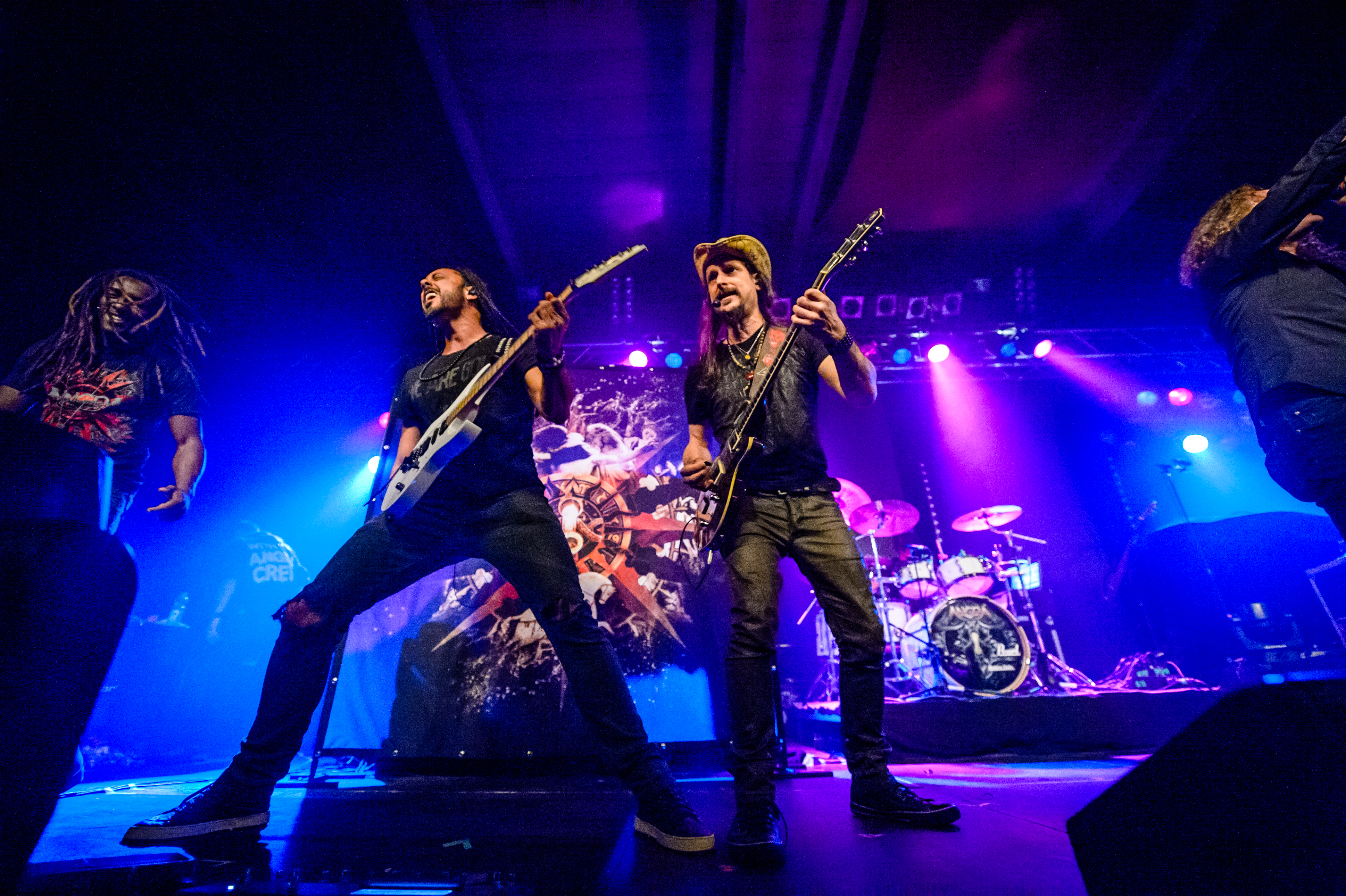 Angra supporting Tarja Turunen - The Shadow Shows Tour; Live Music Hall Köln 2016